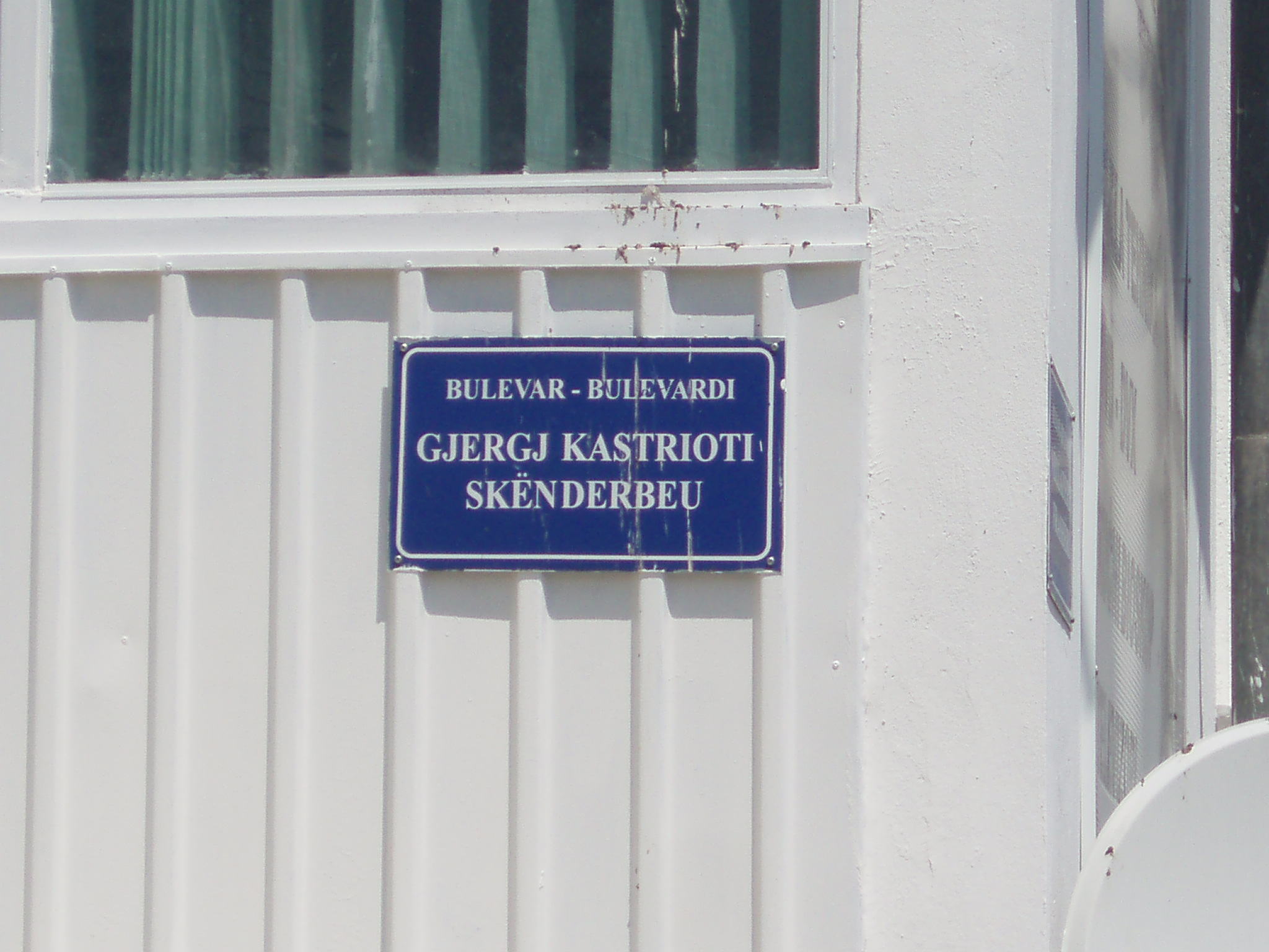 a bilingual Albanian-Serbian street sign in Ulqin, Montenegro